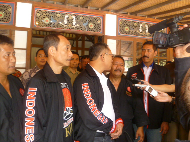 Interview with Dada Rosada (the Mayor of Bandung, Indonesia)